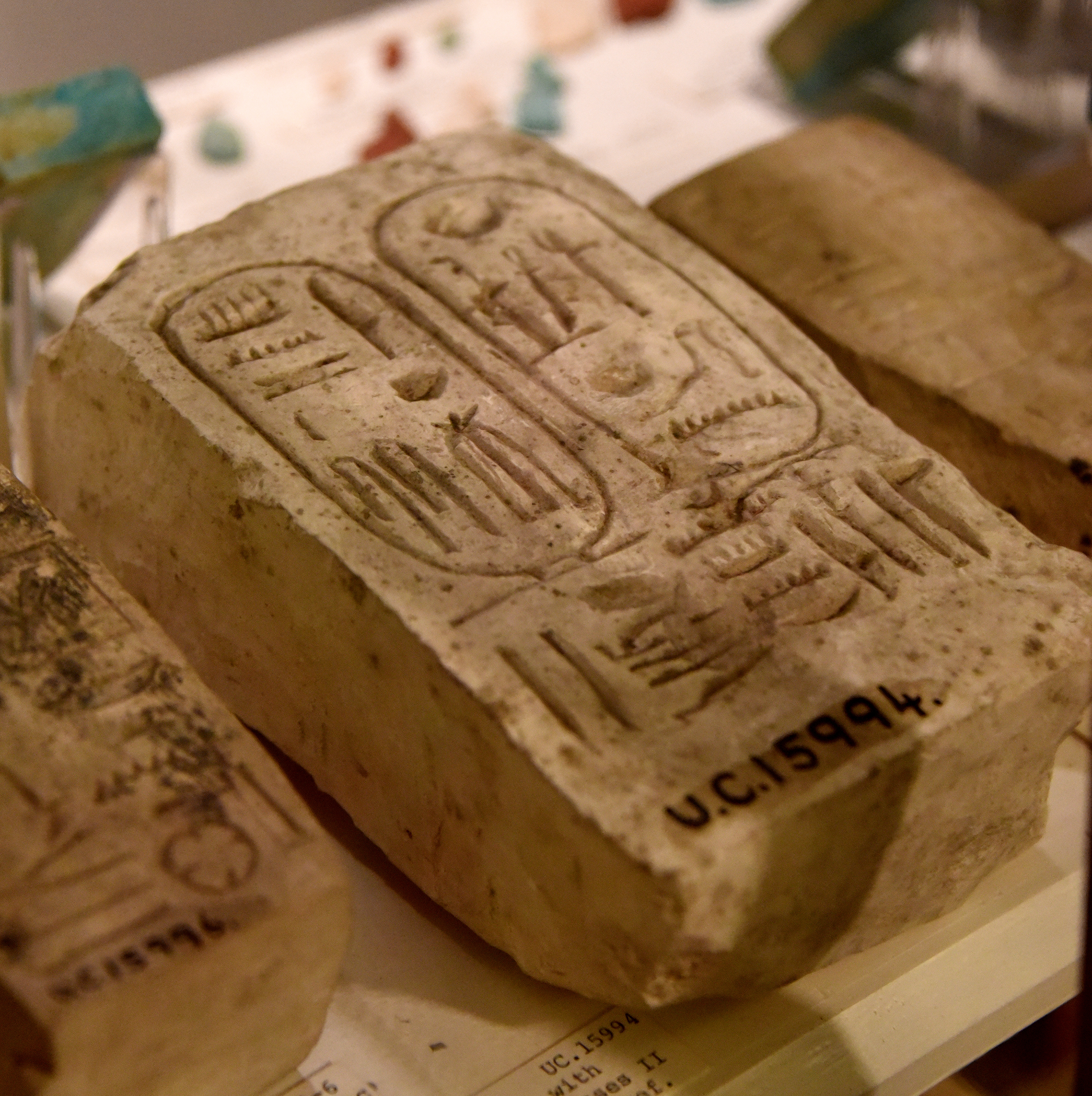 Fragment of a limestone block showing the cartouche of Ramesses II and the name of Nebwenenef, the High Priest of the God Amun. 19th Dynasty. From Kurna (Qurna, Qurnah), Thebes, Egypt. The Petrie Museum of Egyptian Archaeology, London. With thanks to the Petrie Museum of Egyptian Archaeology, UCL.